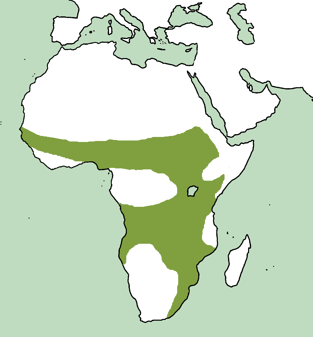 Geographical range of the Black-bellied Bustard (Lissotis melanogaster). Reference: Josep del Hoyo, Andrew Elliott, Jordi Sargatal: Handbook of the Birds of the World. Volume 3 Hoatzin to Auks